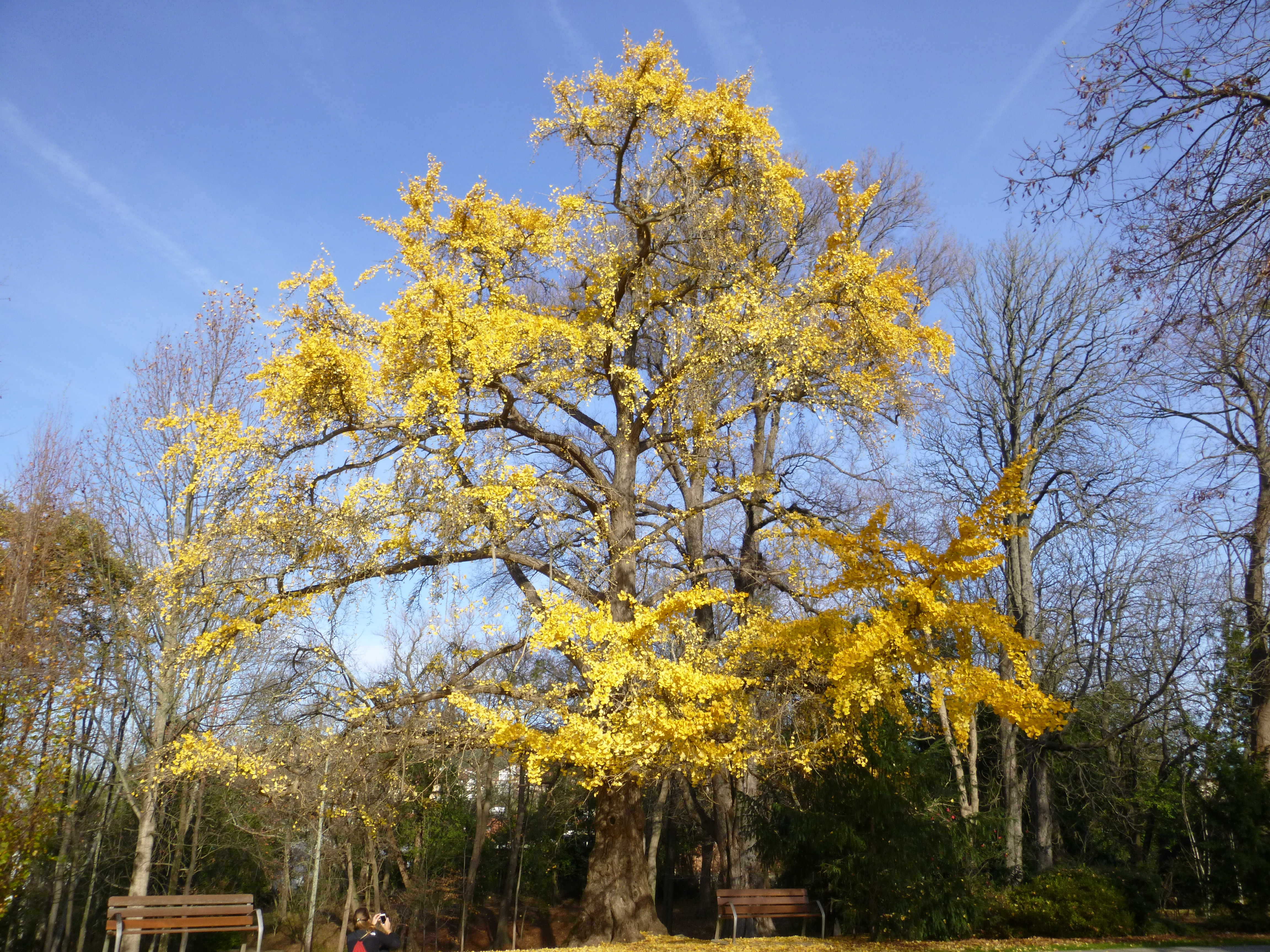 Ginkgo in Cristinaenea